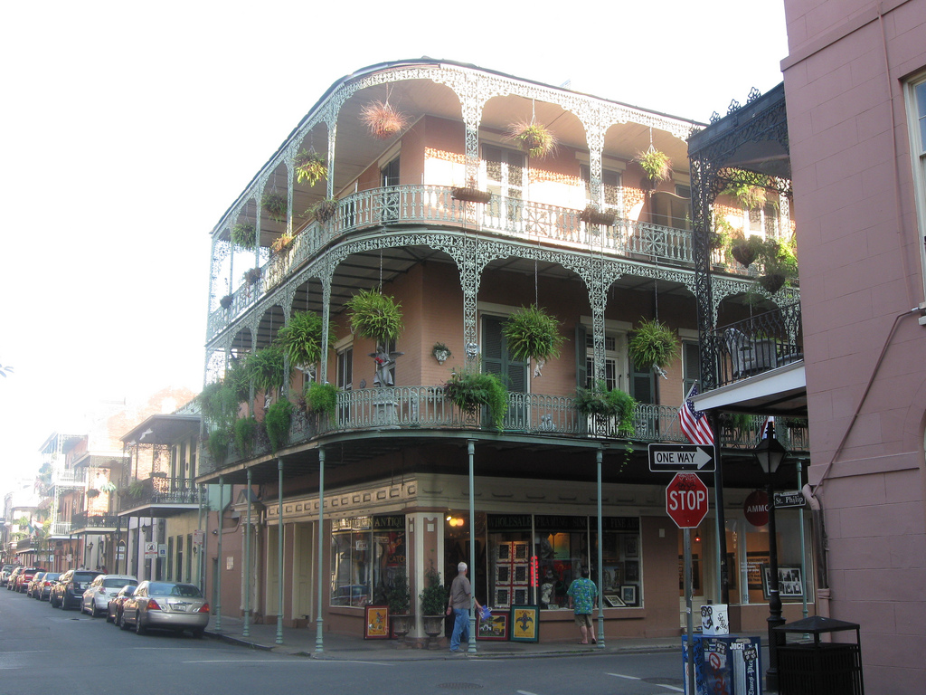 "Yes, it is that beautiful." St. Philip Street at Royal Street, French Quarter, New Orleans.